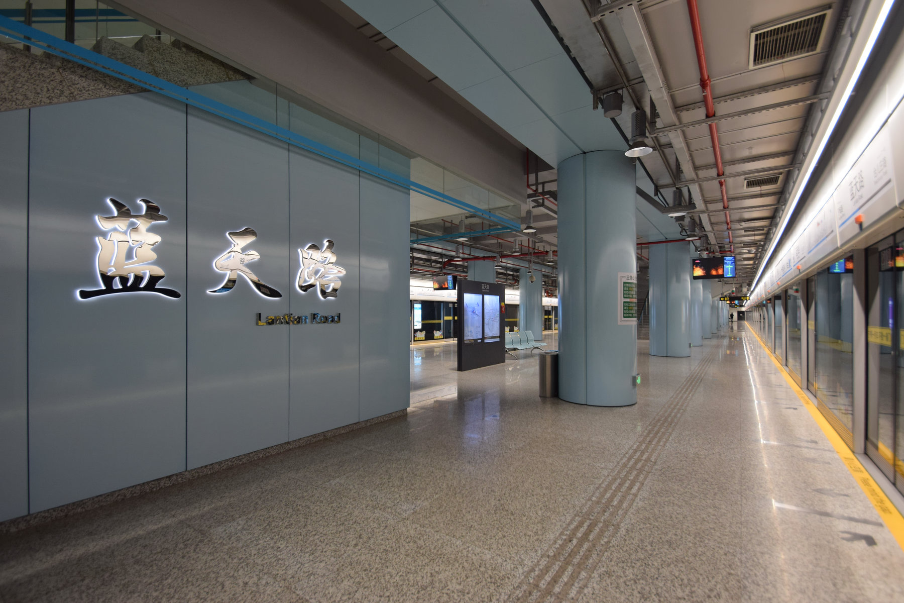 Line 9 Platform of Lantian Road Station, Shanghai Metro